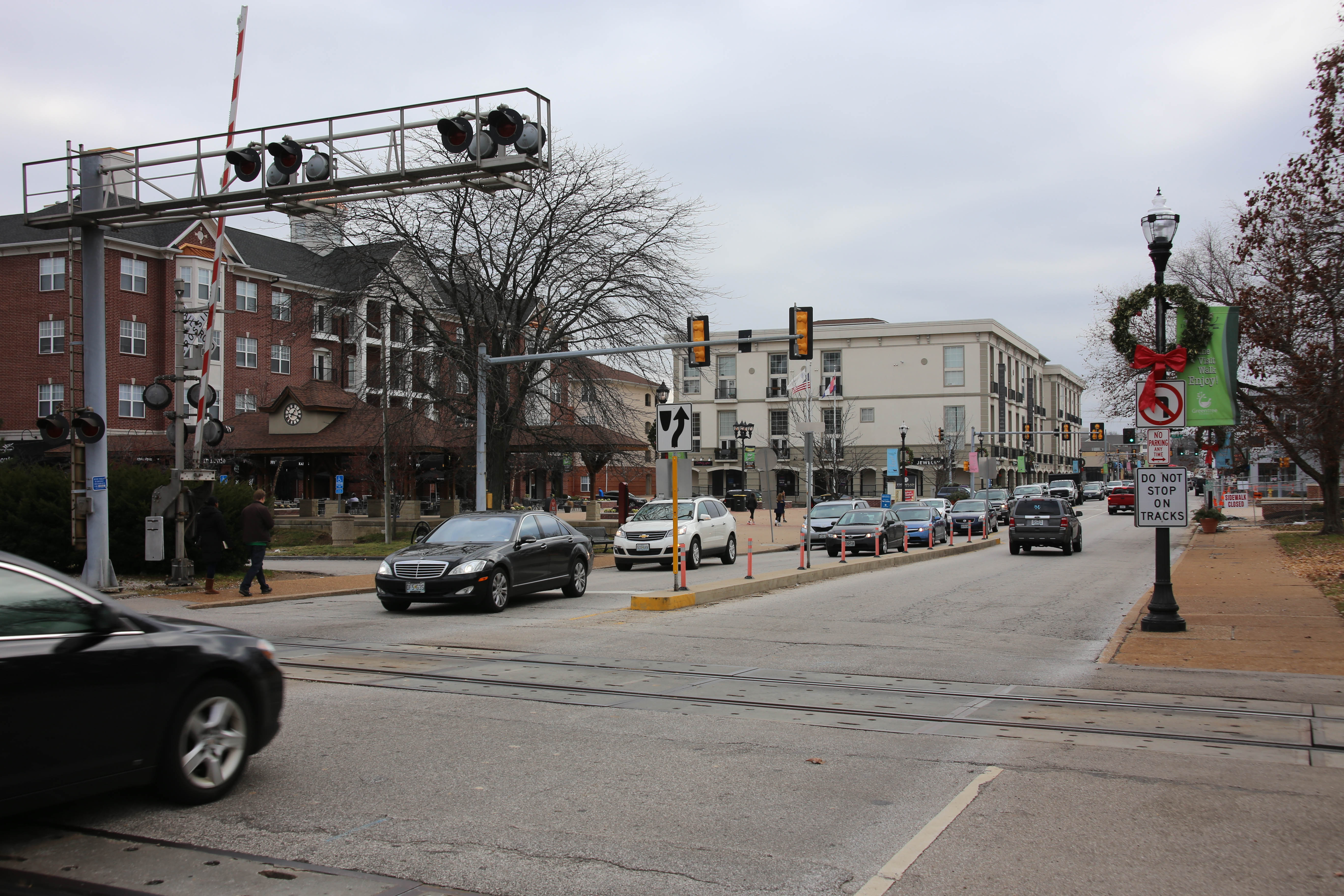 Downtown Kirkwood Kirkwood, Missouri